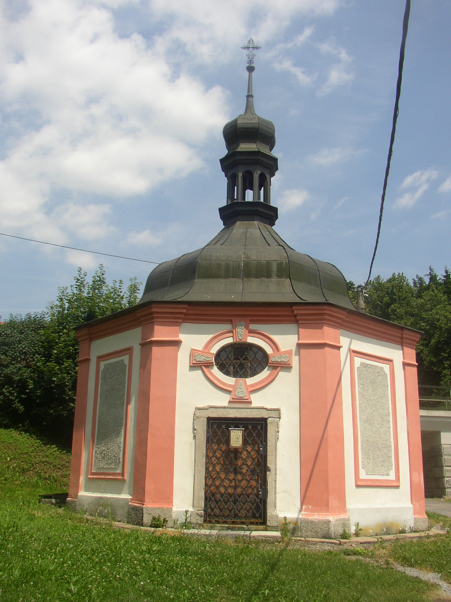 St. Mary Magdalene Chapel in Dobrá Voda, nowadays part of Březnice town, Příbram District, Czech Republic. Front view. Octogonal building from 1642 projected by Carlo Lurago and commissioned by Přibík Jeníšek of Újezd. The most recet repair dates from 1992-97.